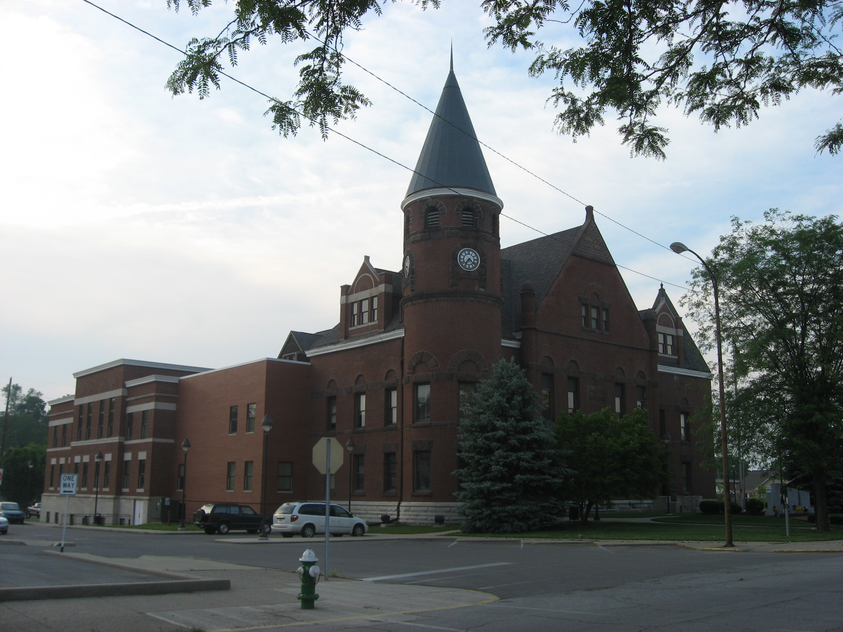 Front and southern side of the Fayette County Courthouse, located at 401 Central Avenue (State Road 44) in Connersville, Indiana, United States. Built in 1890, it is listed on the National Register of Historic Places.